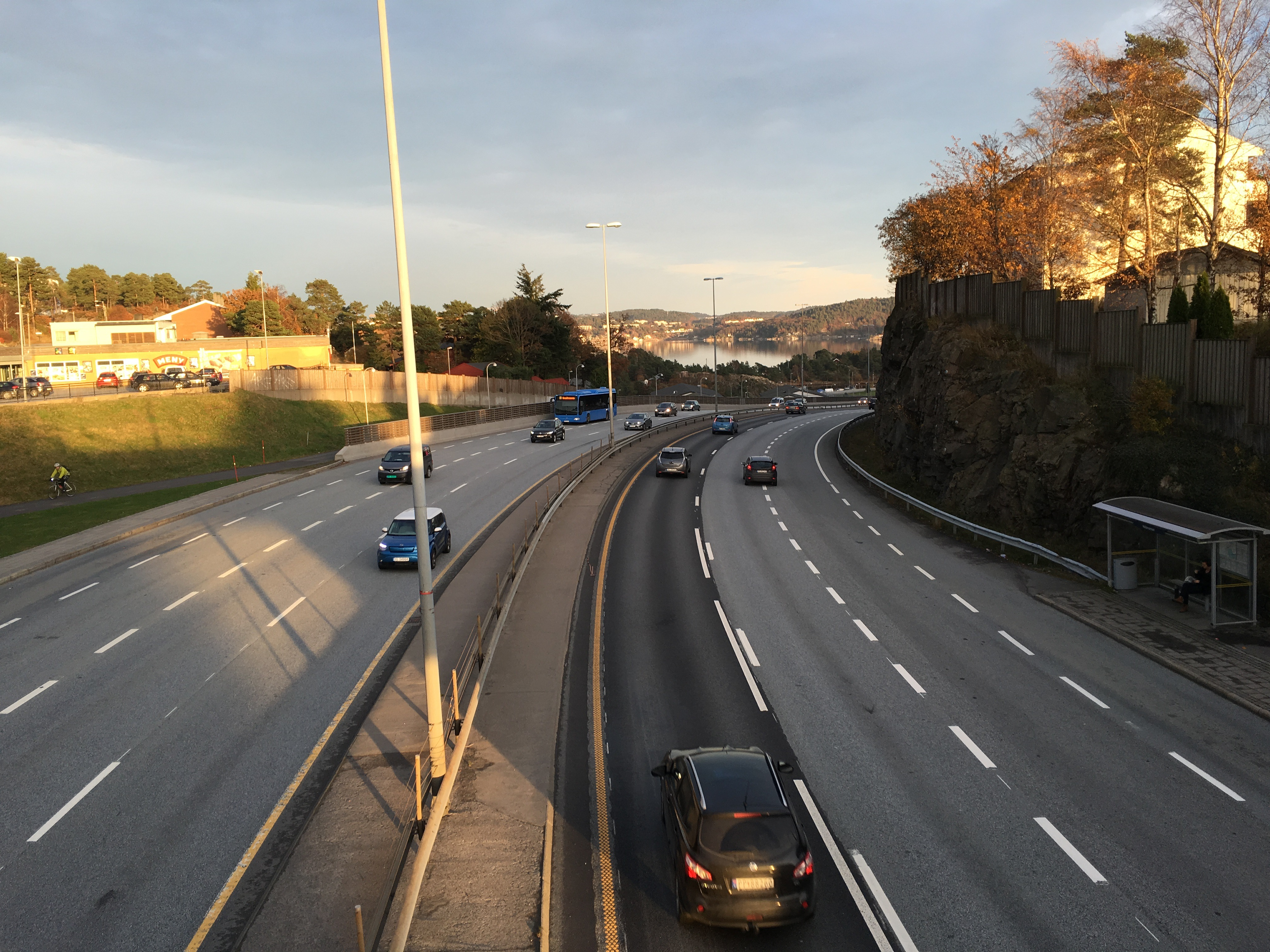 E18 in Kristiansand with Vollevannet